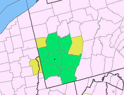 Pittsburgh metropolitan area